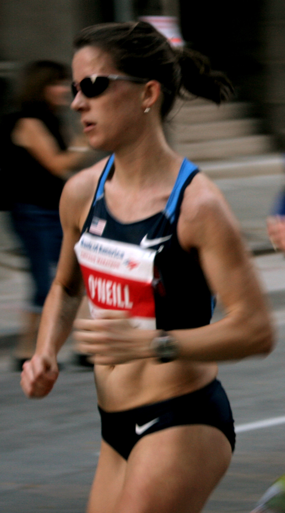 Kate O'Neill in the 2008 Chicago Marathon (on the left)